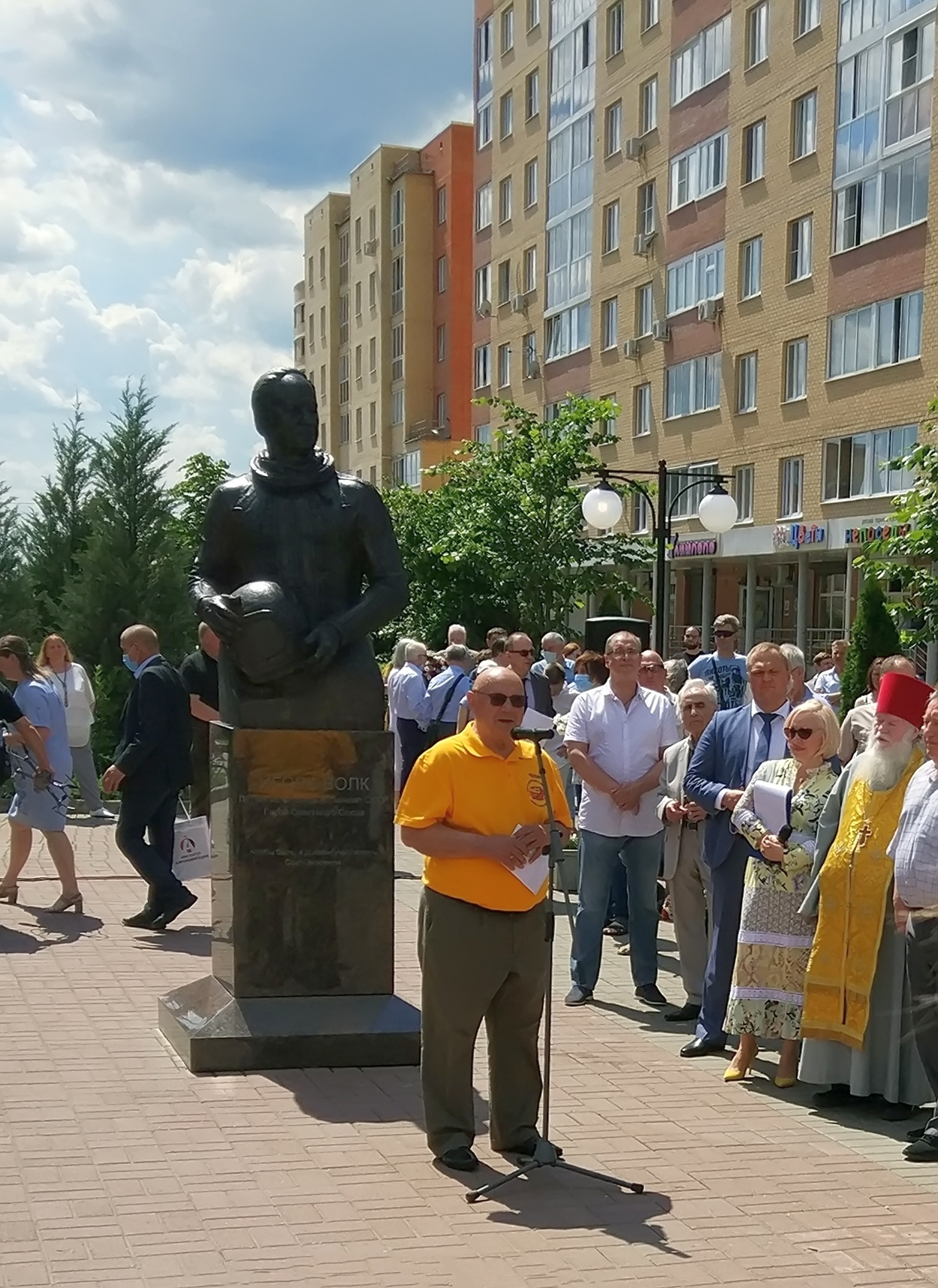 Cosmonaut Vladimir Dzhanibekov opens the memorial bust of Igor Volk in the city of Zhukovsky